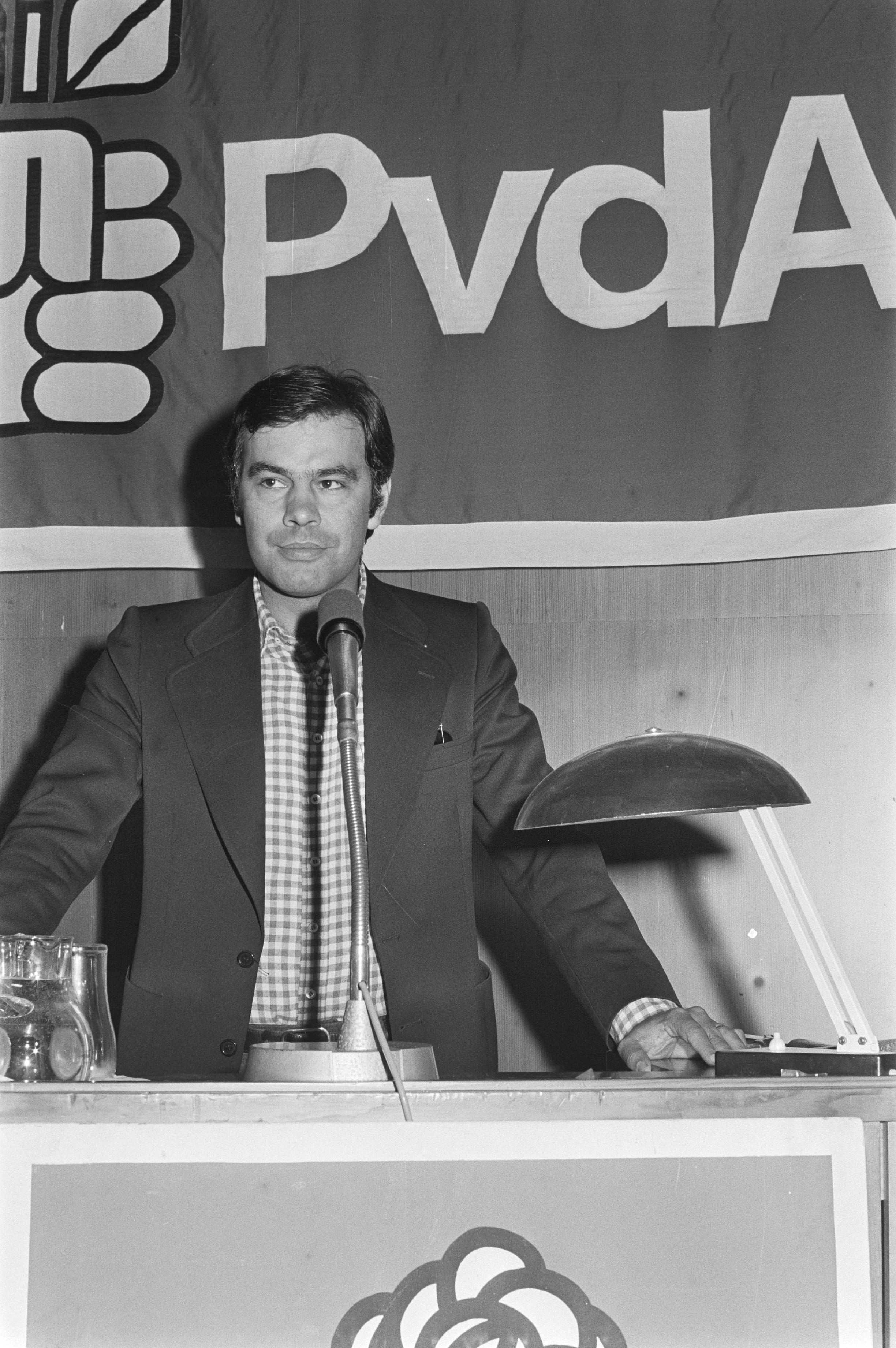 PvdA party council in Amsterdam; González speaking.